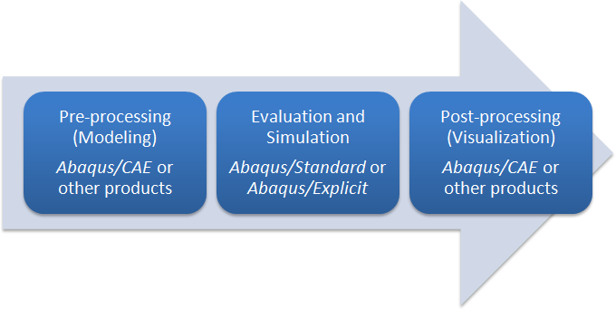 Finite Element Analysis process in Abaqus software